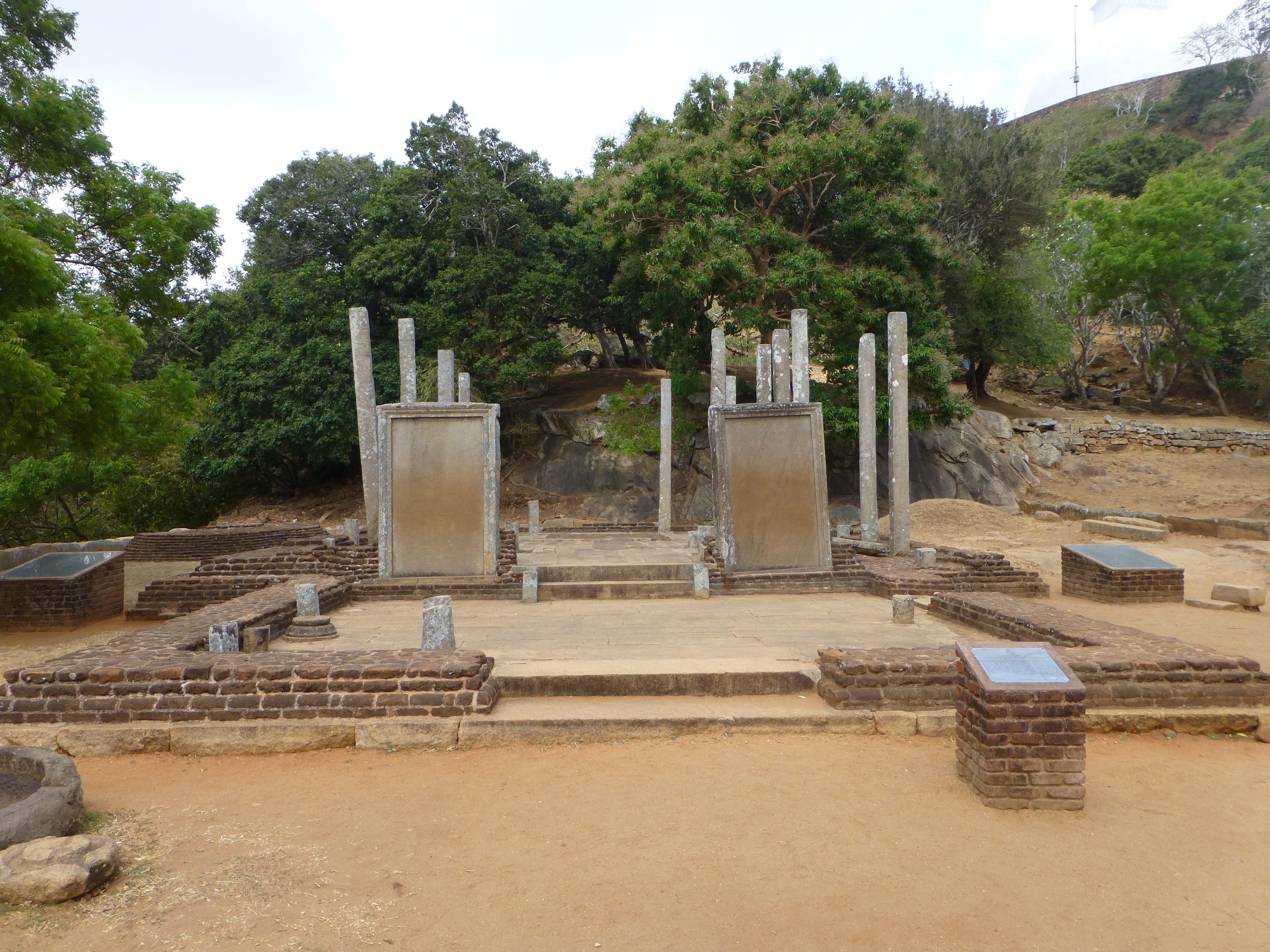 Slabs of granite known as the Mihintale Slab Inscriptions. King Mahinda IV (956-972).